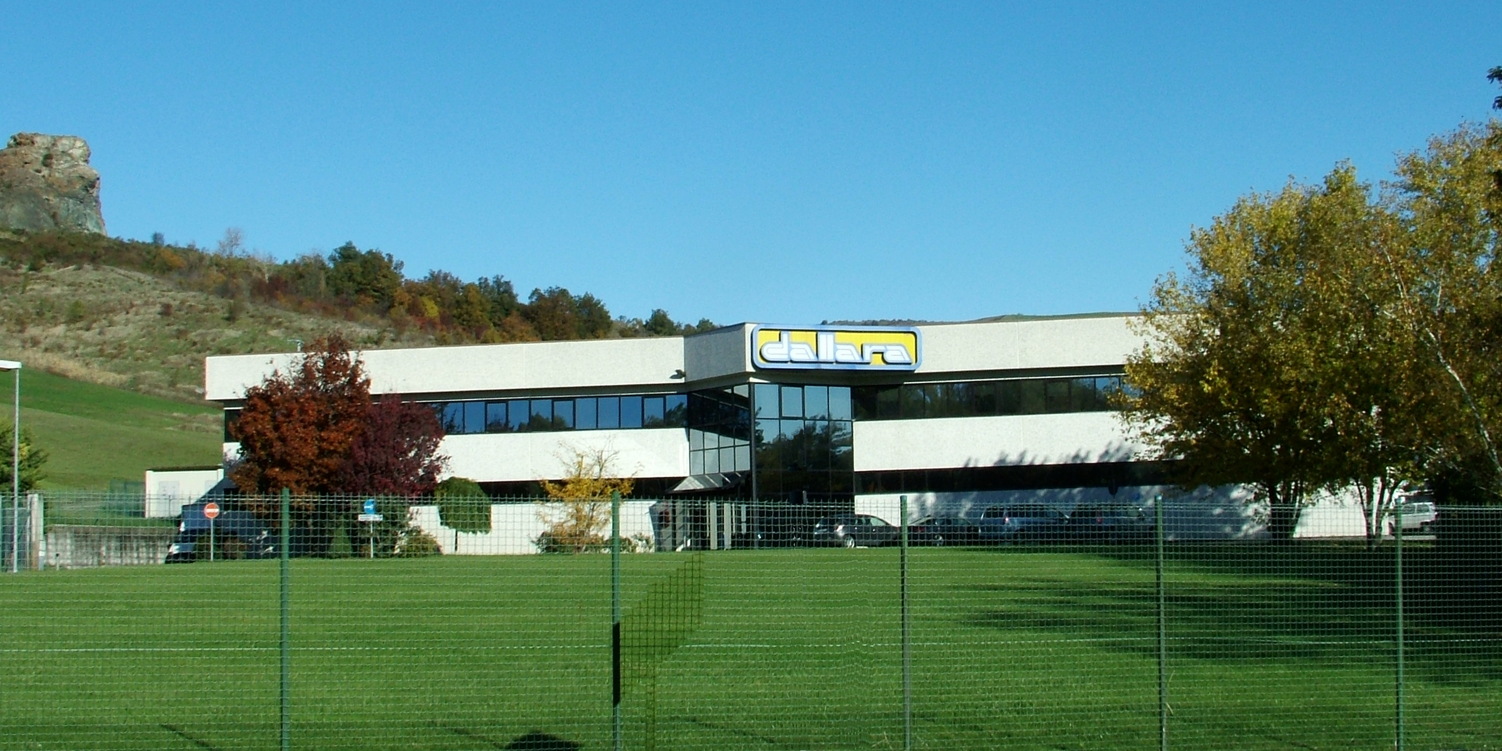 Company headquarters of the Dallara Automobili in Varano de 'Melegari, province of Parma, Italy.